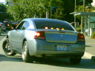 Unmarked Washington State Patrol Charger police car